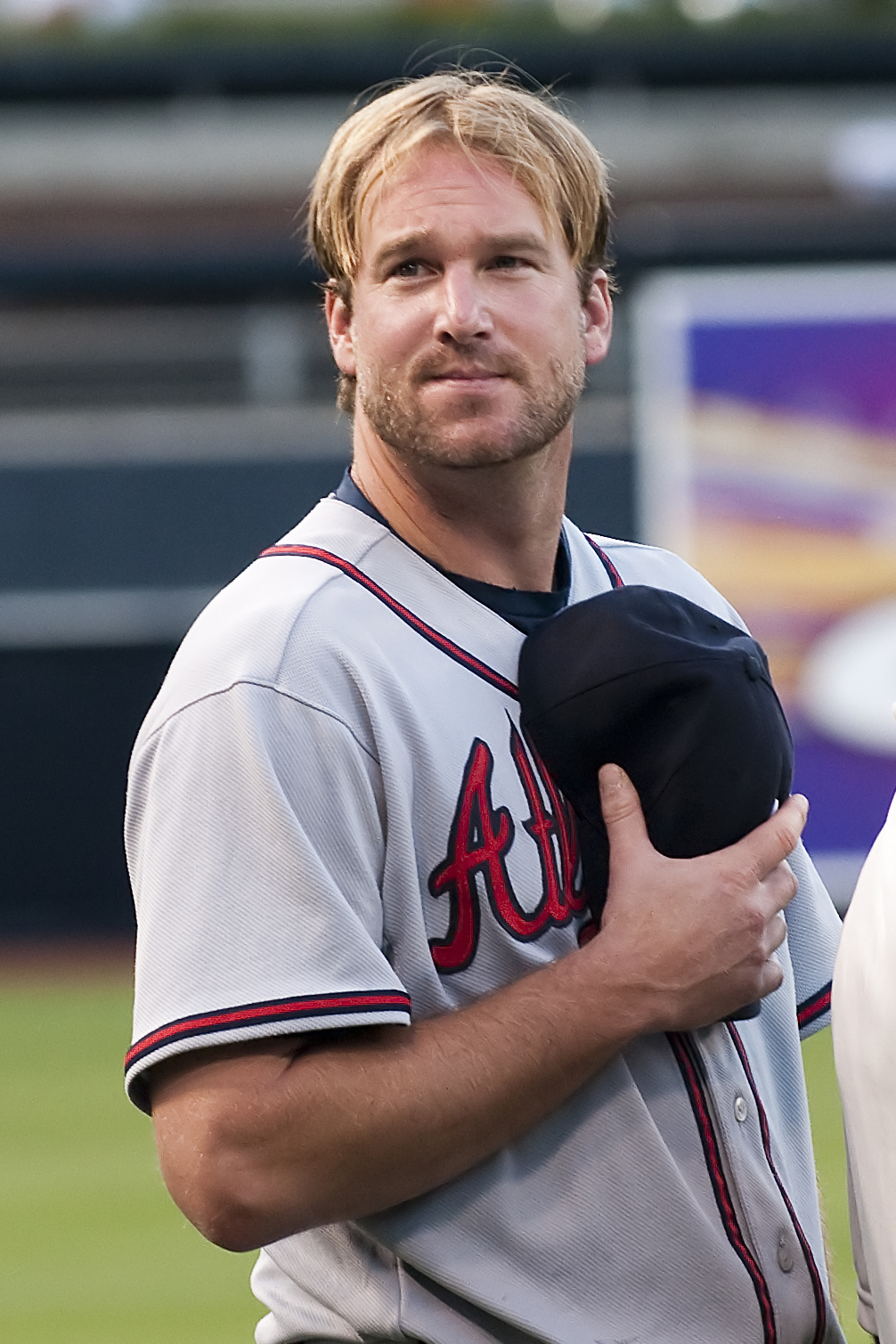 Derek Lowe of he Atlanta Braves during the National Anthem